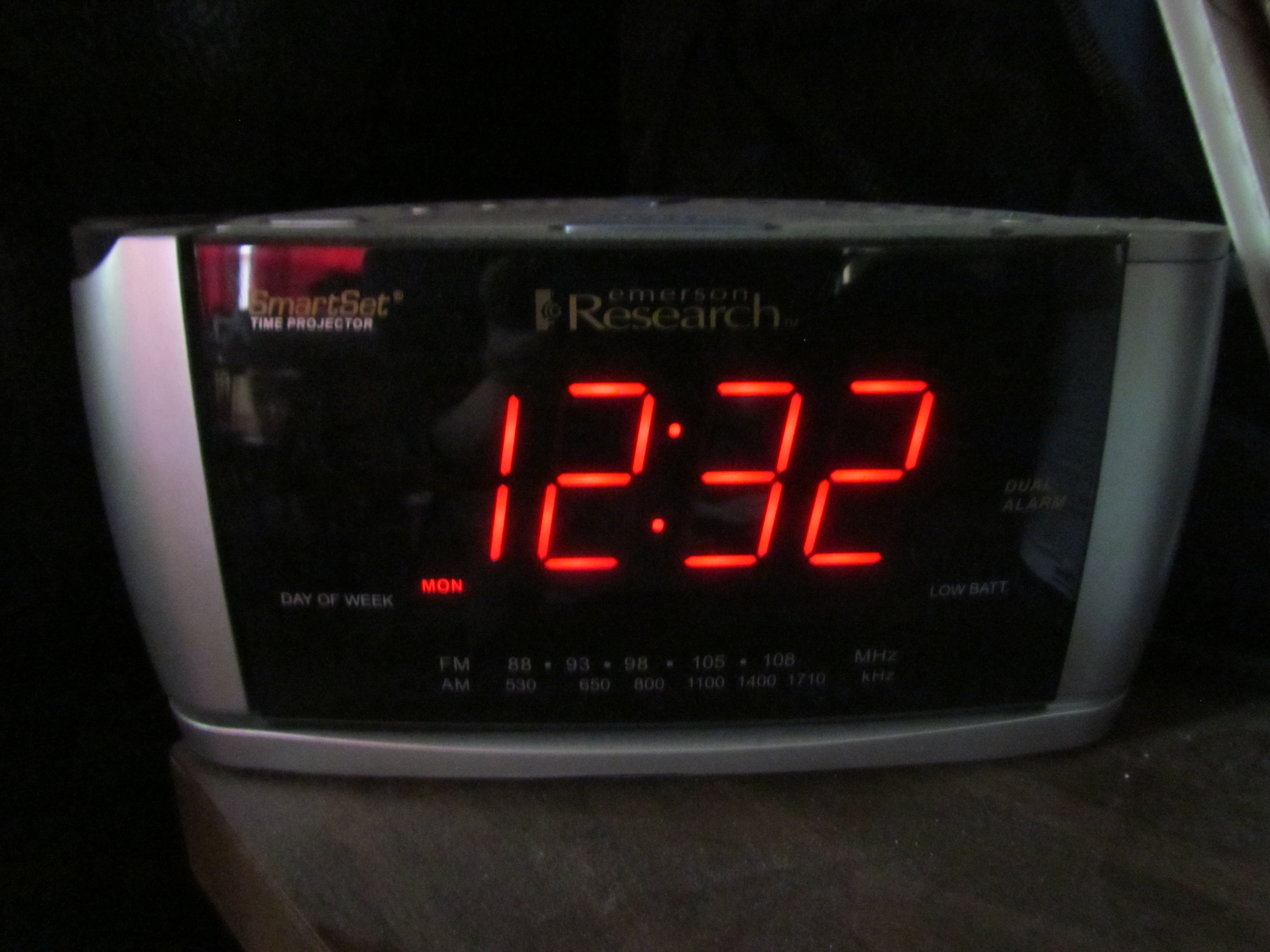 Digital clock at 12:32